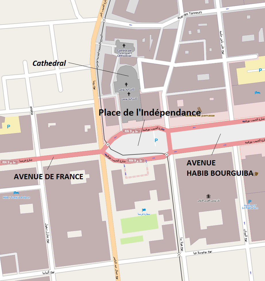 Map of central Tunis